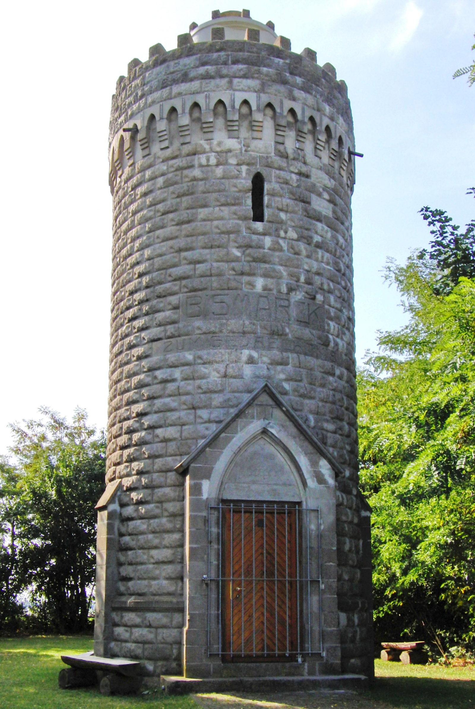 The front side of the Bismarck tower near Oberg (Lahstedt) in Kreis Peine.